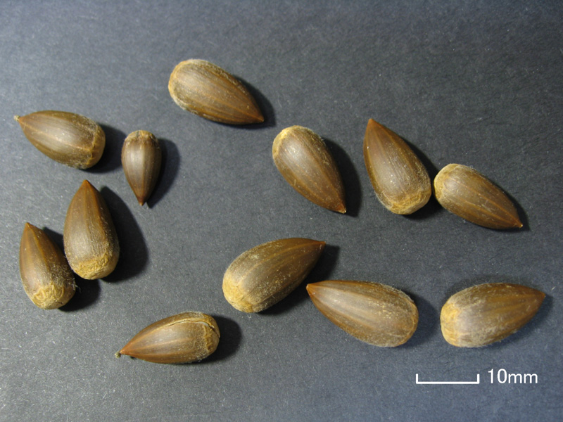 Castanopsis sieboldii nuts (with scale)